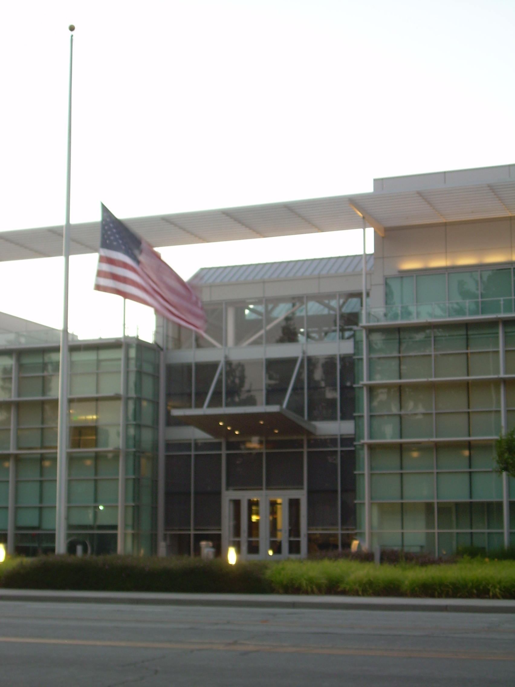 flag half-mast at National Semiconductor on 2011-06-21 for the death of Bob Pease